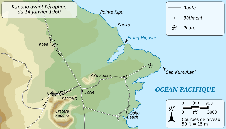 Map of Kapoho before the eruption of january 14, 1960, Hawaii, United States